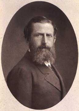 Ludvig Jens Tønnes Grøn (1827-1910), Danish merchant and industrialist